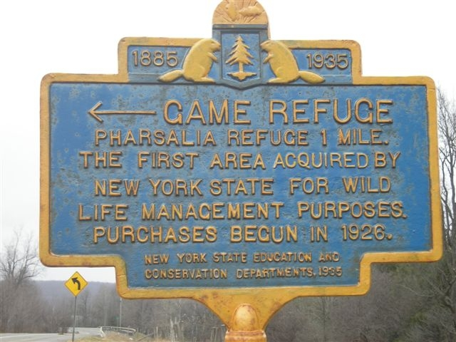 Historic marker of Game Refuge. The first area acquired by New York State for wild life management, begun in 1926